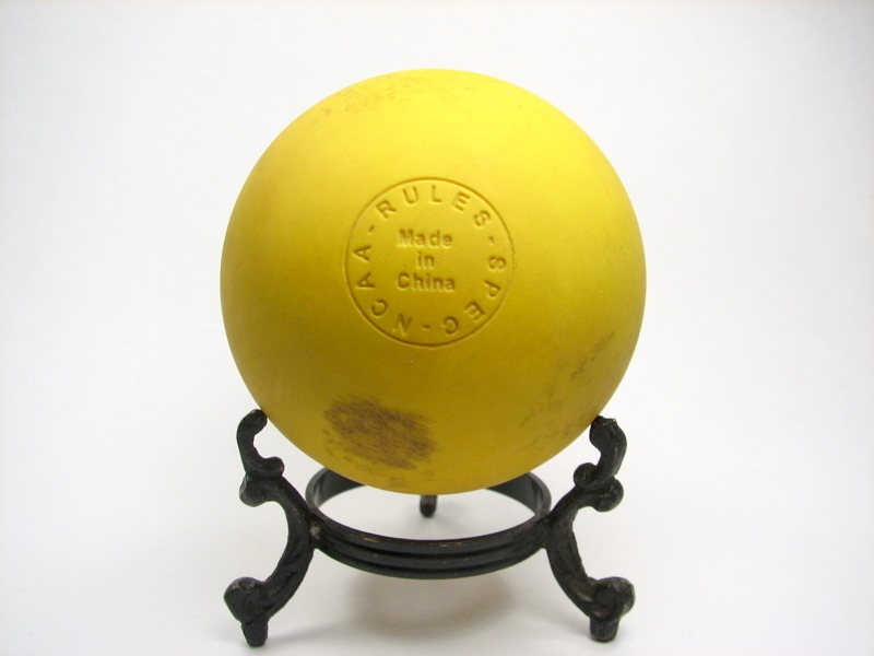 A women's lacrosse ball, which are yellow. Game-used, with a dark scuff.